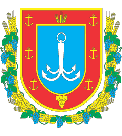 Coat of arms of Odesa Oblast, Ukraine